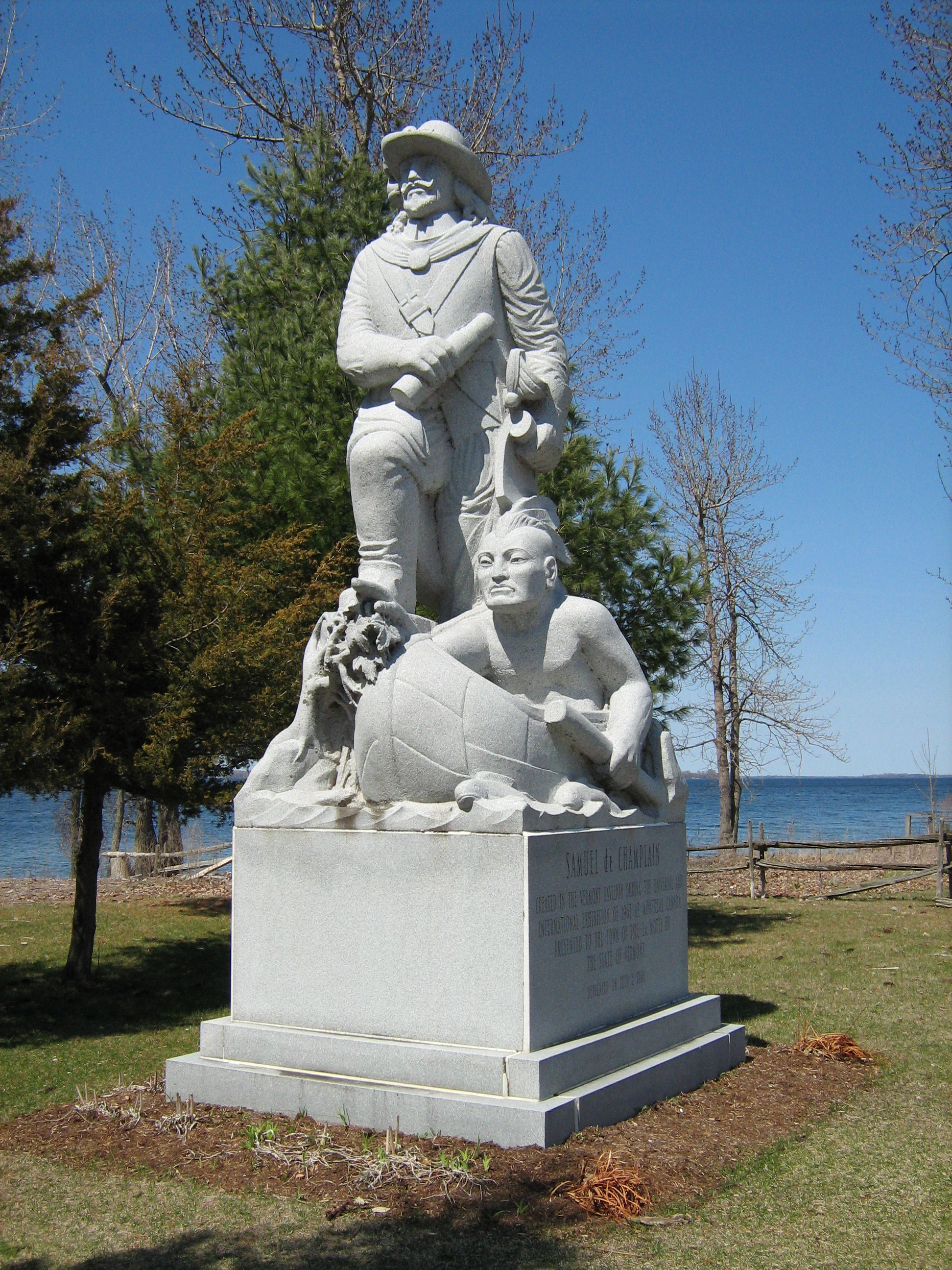 Photo of statue of Samuel de Champlain in Isle La Motte, Vermont, said to be the location at which Champlain first set foot in what is now Vermont.